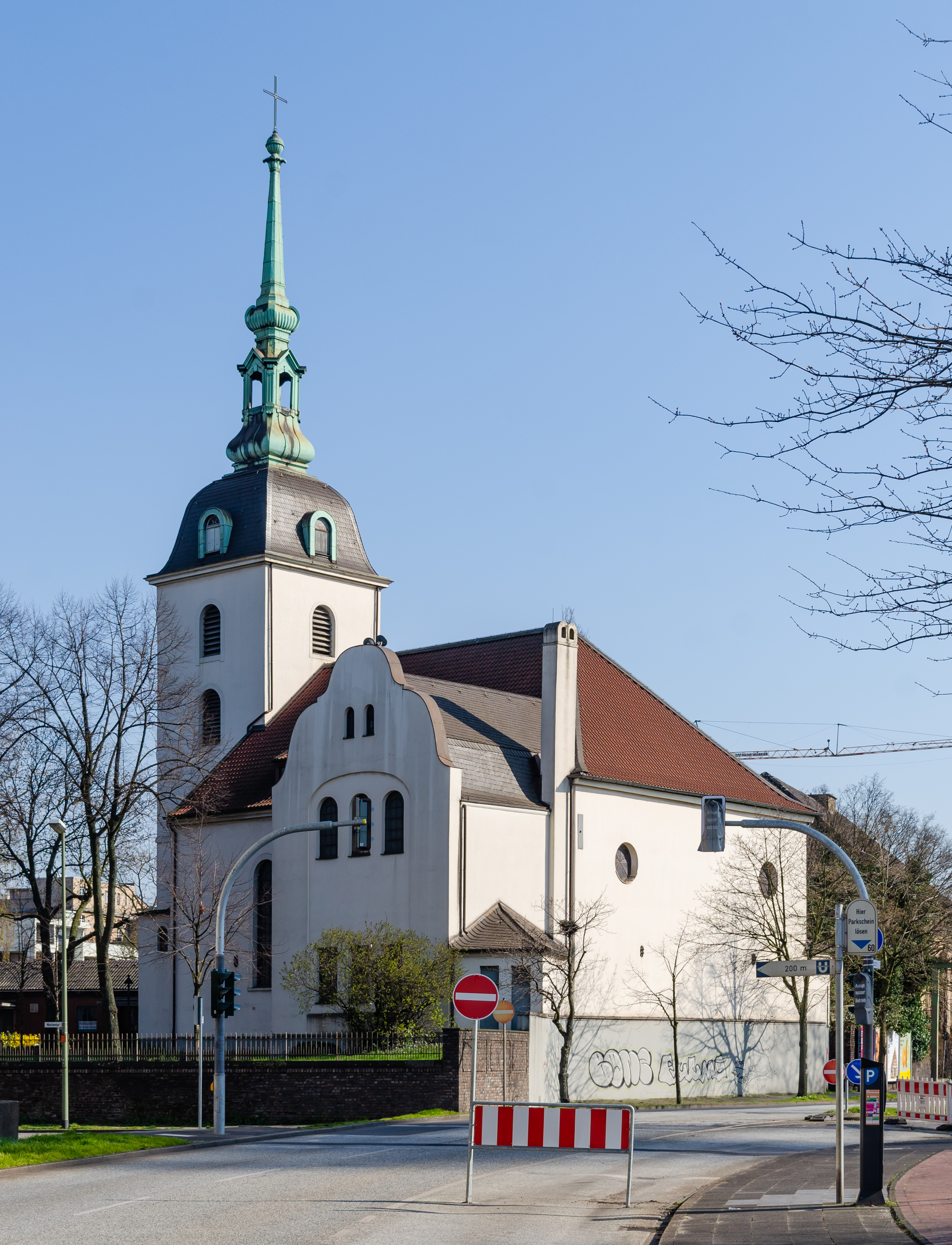 Duisburg (North Rhine-Westphalia, Germany) – borough Mitte, district Altstadt – Protestant Saint Mary's Church – view from the northwest